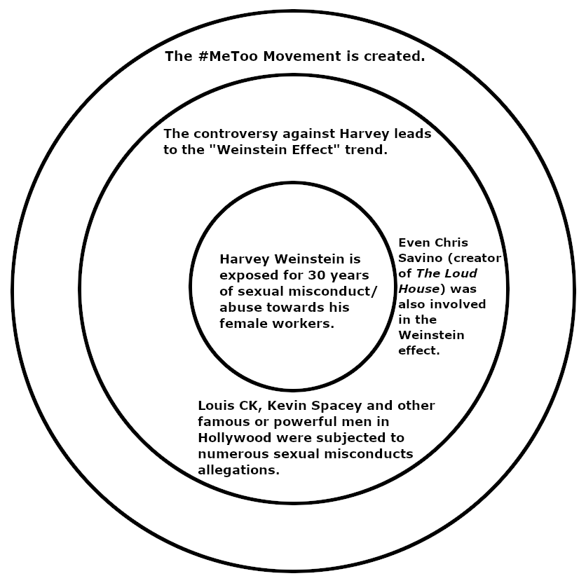 A diagram of the Ripple Effect showcasing the impact of the Weinstein Effect.